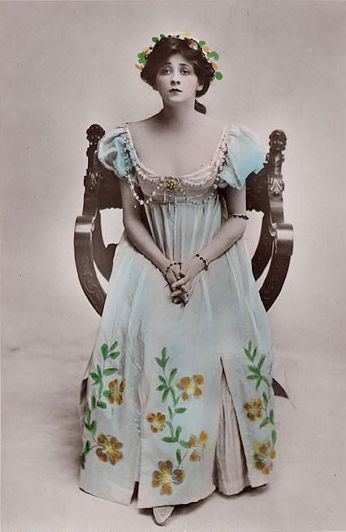 Photo of Valli Valli